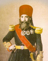 Ahmad I ibn Mustafa